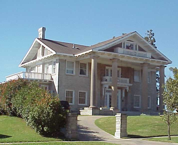 The Tate Brady Mansion — at 620 N Denver, in Tulsa, Oklahoma. The mansion was built in 1920. Part of Brady Heights Historical District, on the NRHP.